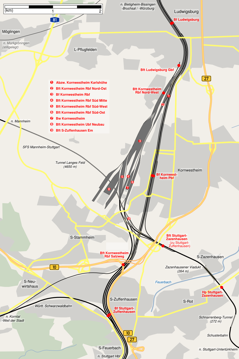 map of Kornwestheim classification yard and surroundings.